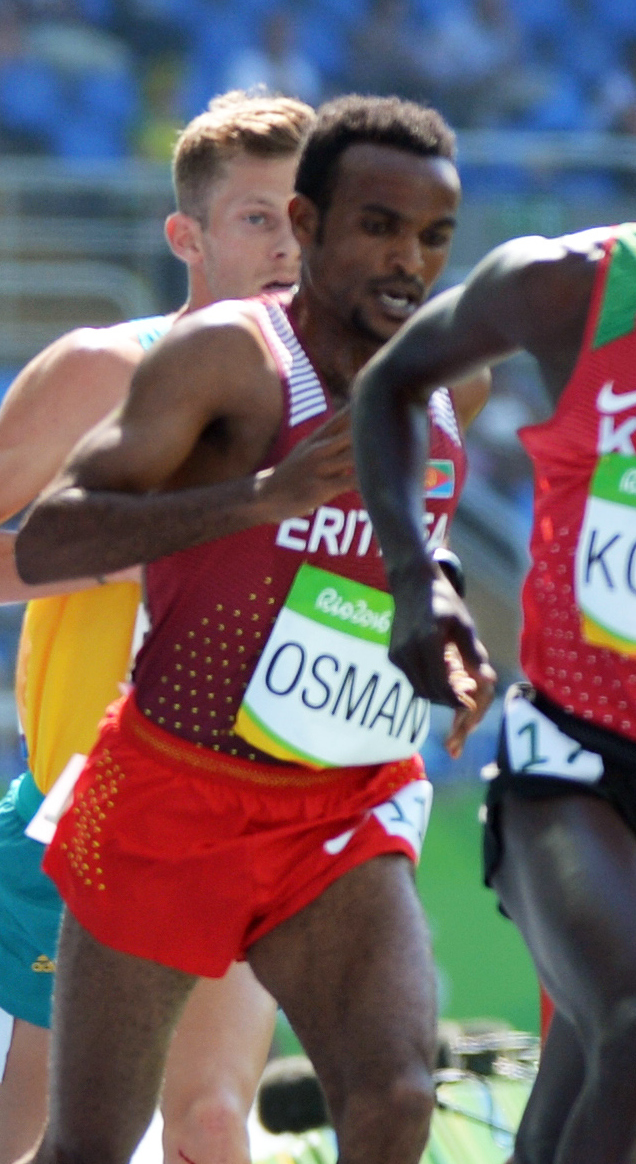 Abrar Osman in the second heat of men's 5,000-meter run, Wednesday, Aug. 17 at the Rio Olympic Games in Rio de Janeiro. U.S. Army photo by Tim Hipps, IMCOM Public Affairs #SoldierOlympians #ArmyOlympians #ArmyTeam #GoArmy #TeamUSA #RoadToRio #Olympics #ArmyStrong